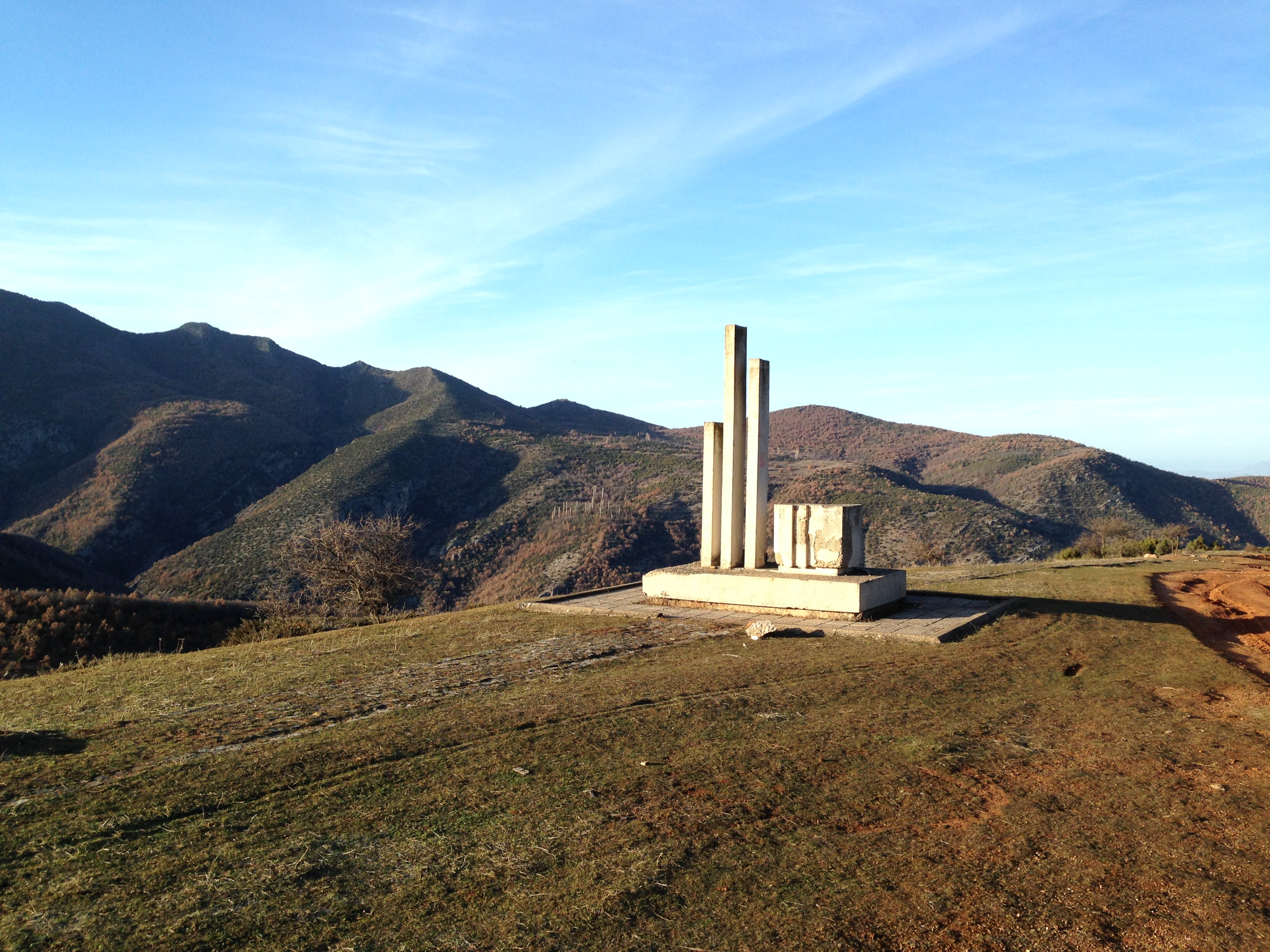 Monument for the foundation of the IX Macedonian partisan brigade in village of Šeškovo, near Kavadarci, Macedonia